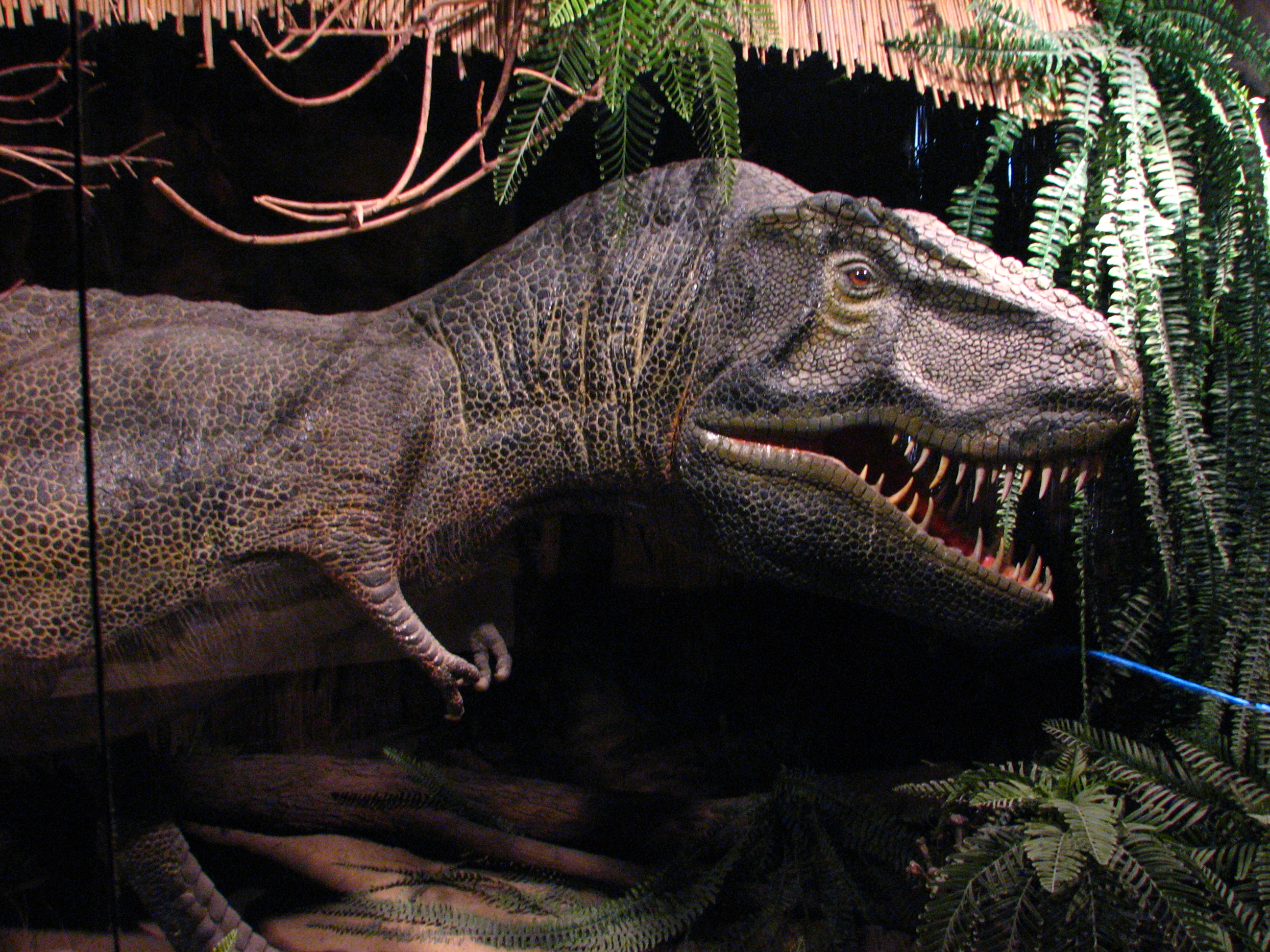 Model of Tyrannosaurus in ZOO Dvůr Králové, Czech Republic